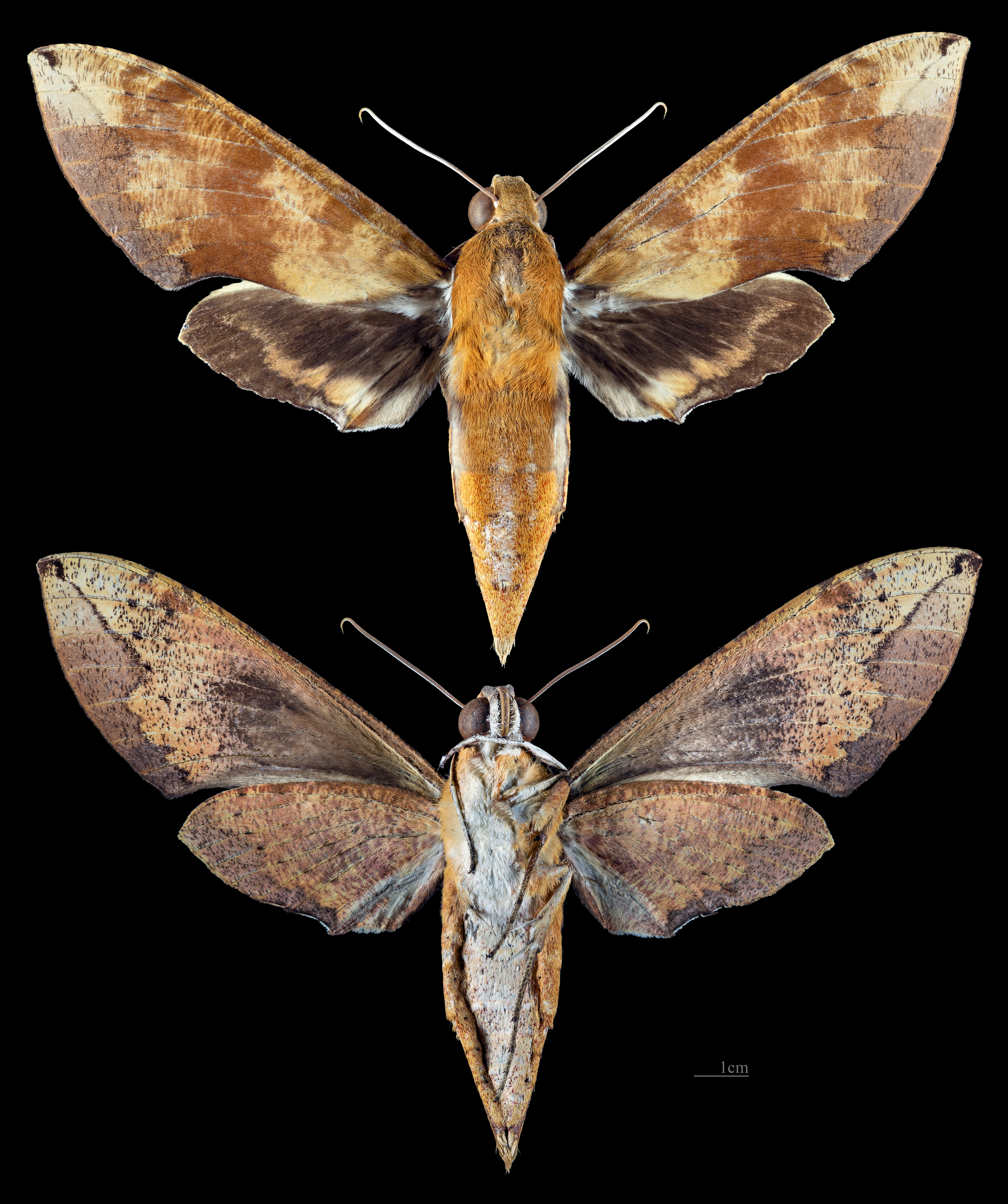 Cechenena aegrota - Two views of same specimen Collection of the Mathematician Laurent Schwartz